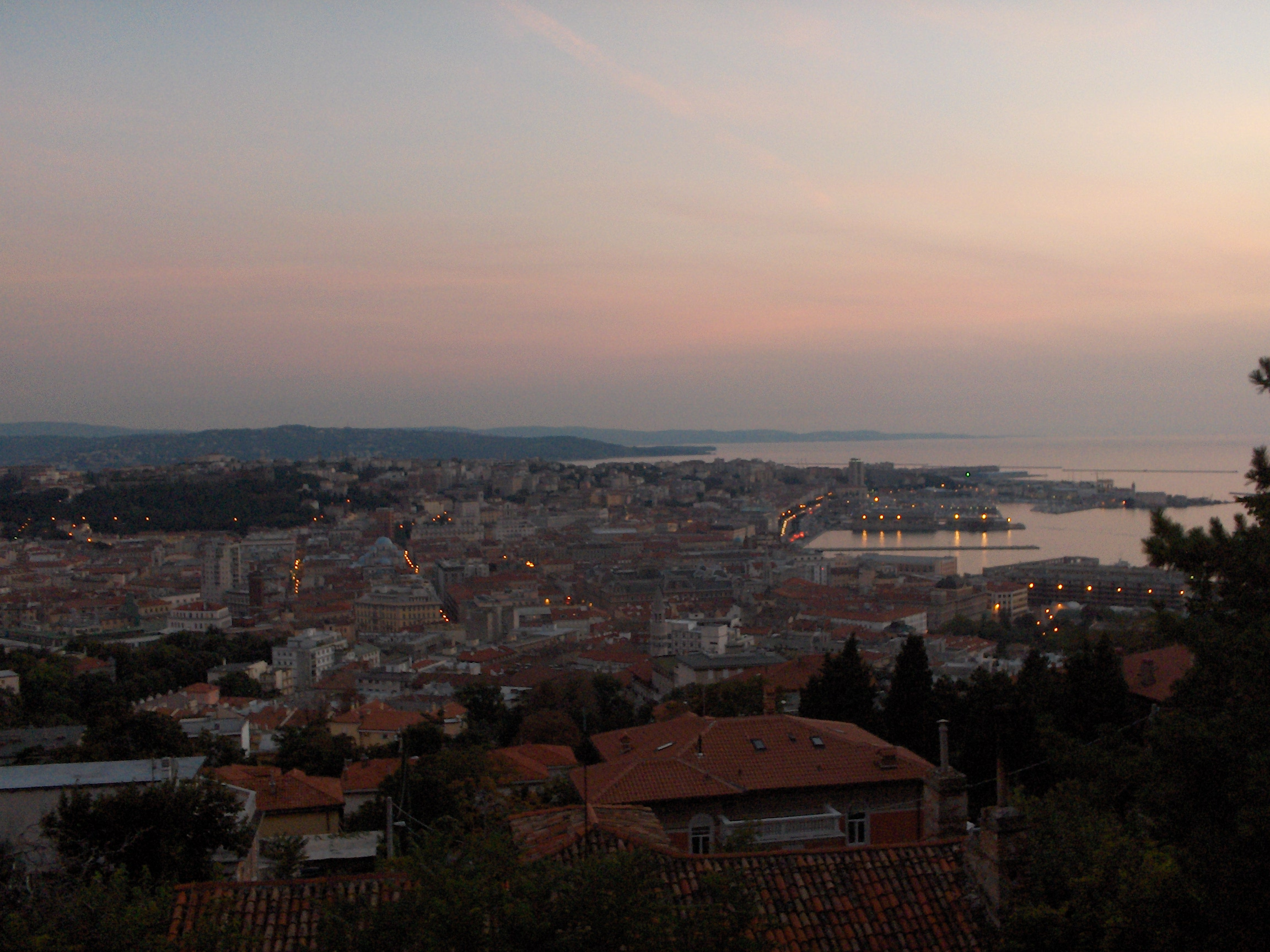 View of city centre and the surrounding hills.